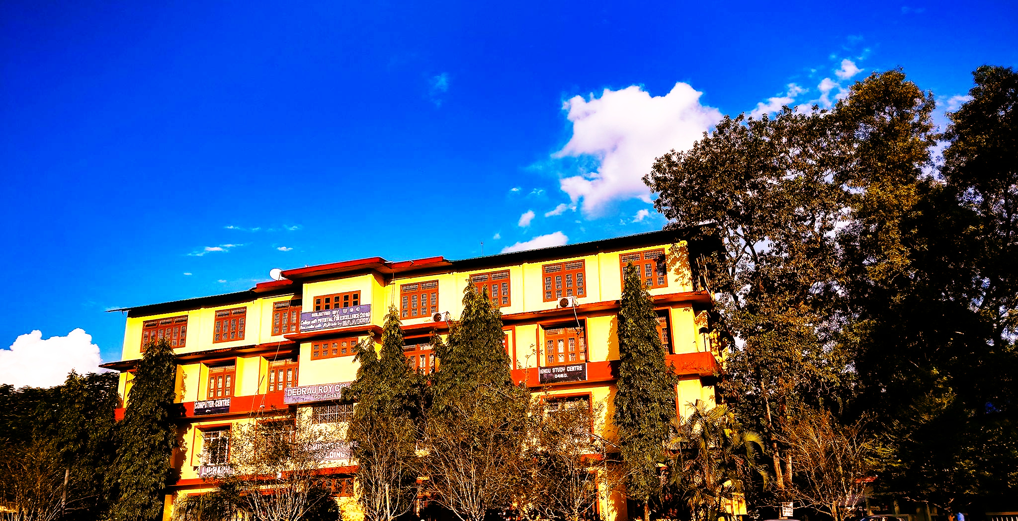 The new academic building of DR College অসমীয়া: The new academic building of DR College